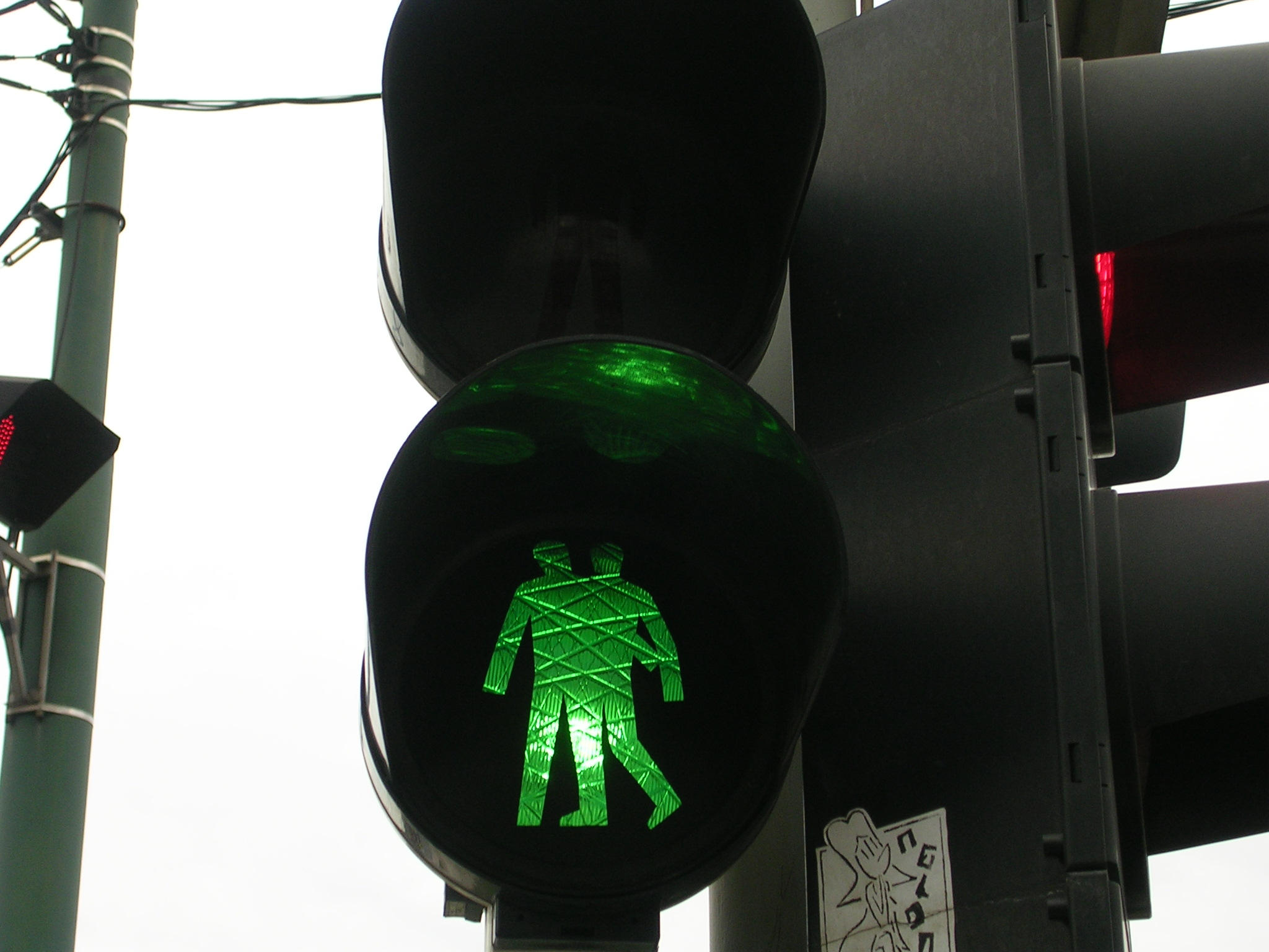 Illegal modificated traffic light in Prague, the Czech Republic. (Performance of underground streetart group Ztohoven.)